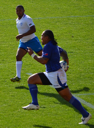 Match between Samoa and Namibia during 2011 Rugby World Cup in New Zealand.